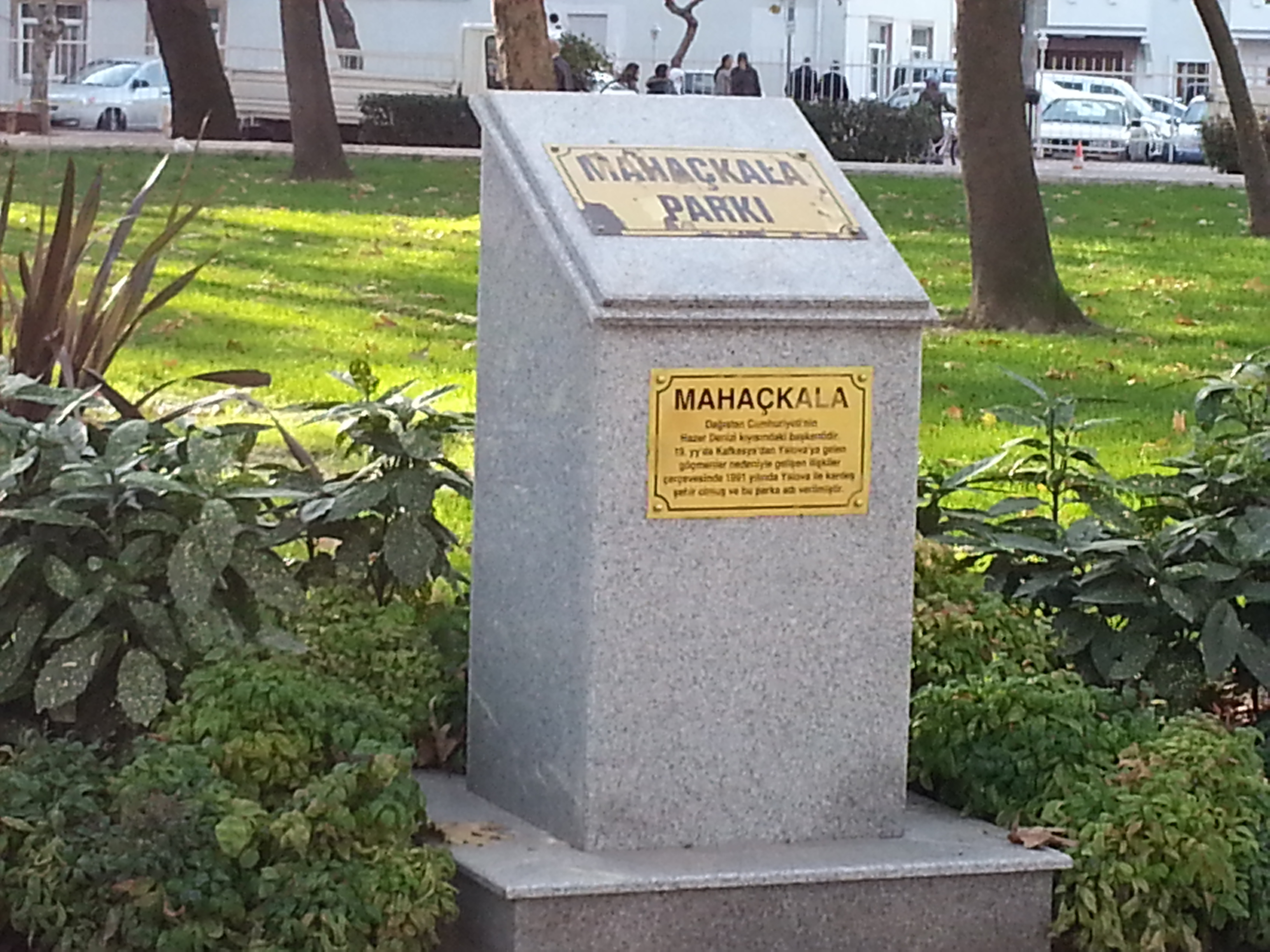 Entry to Makhachkala park in Yalova